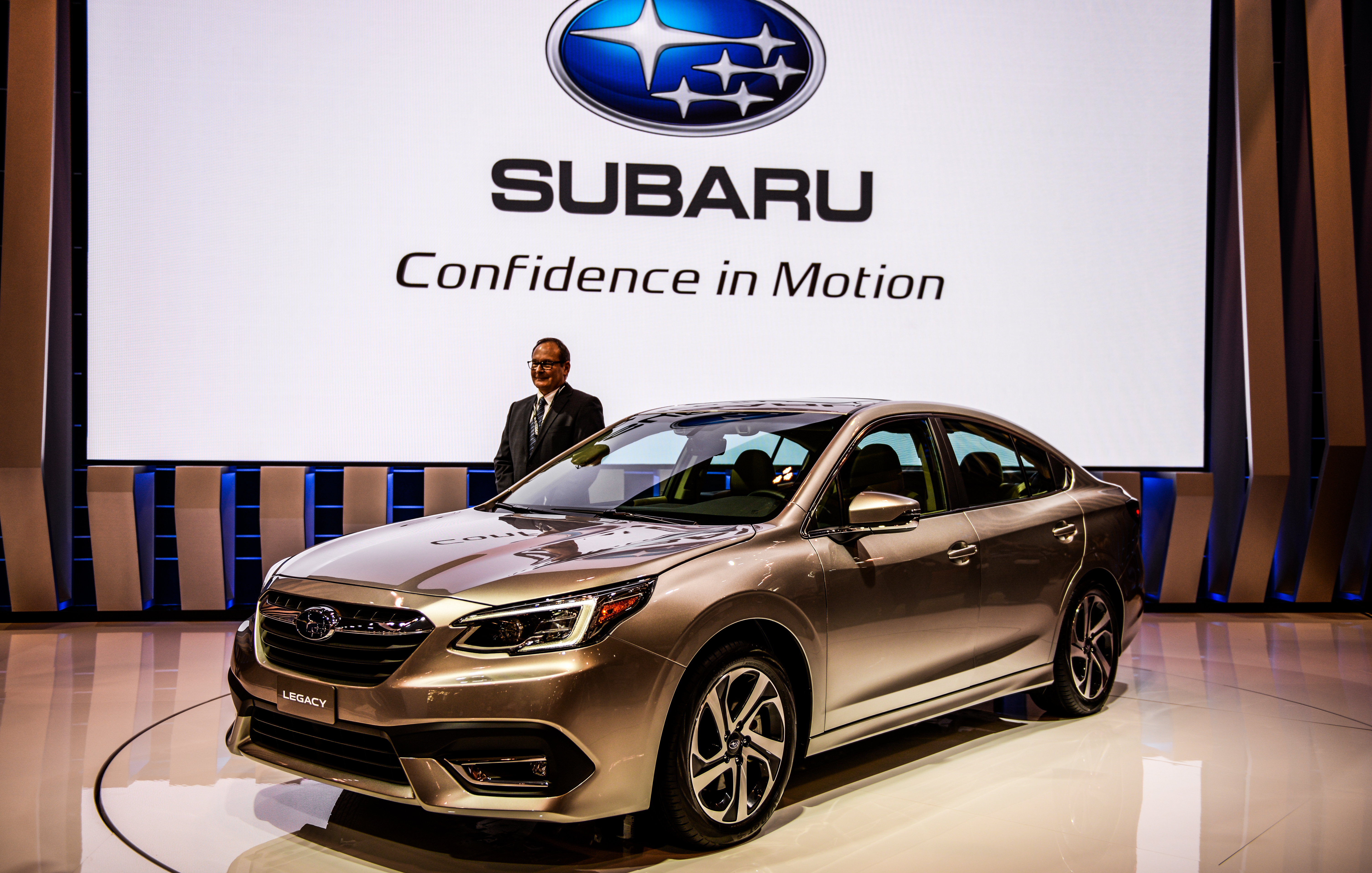 2019 Canadian International Auto Show